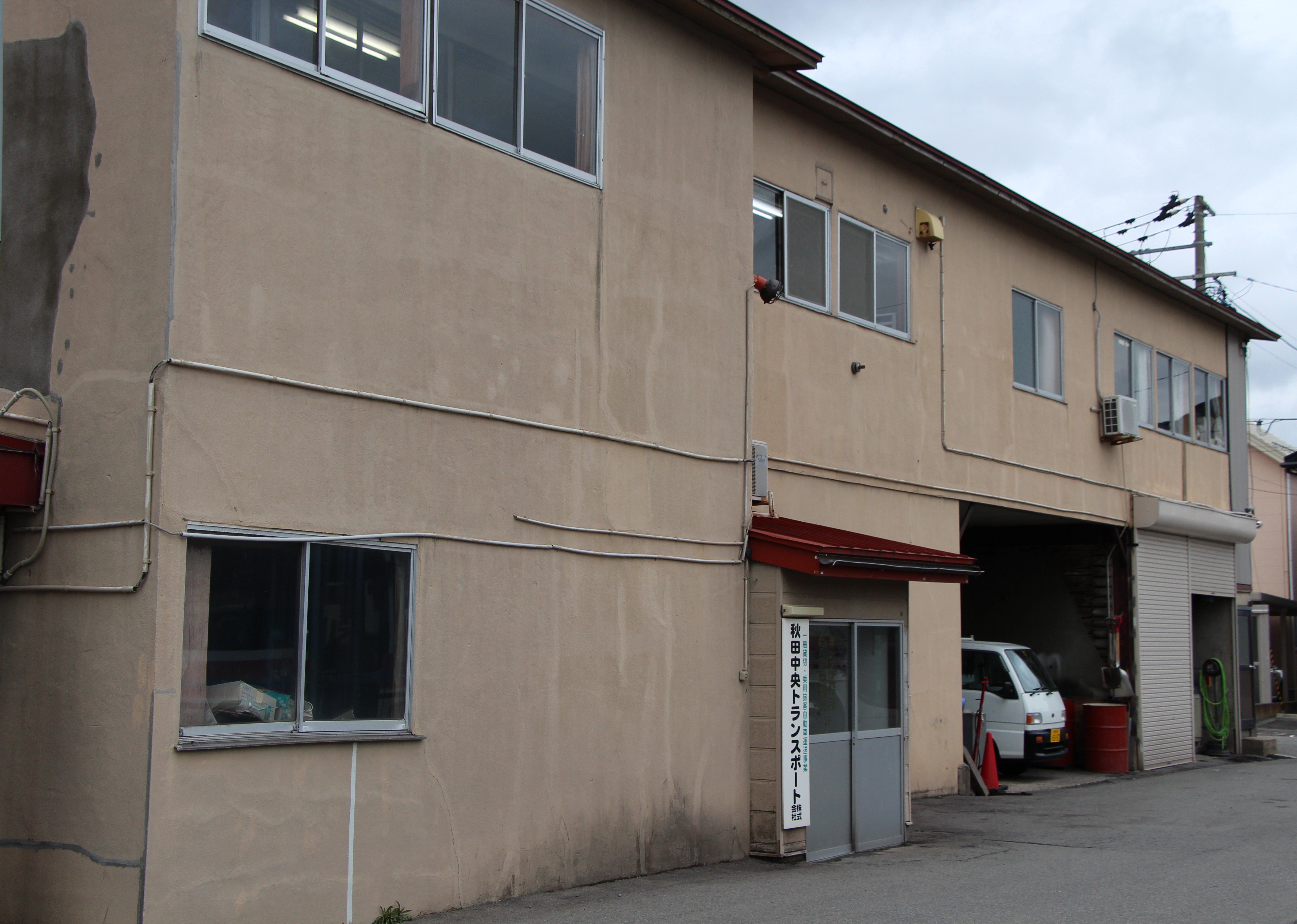 The headquarters of Akita Chuo Transport. Taken on May 3, 2013.